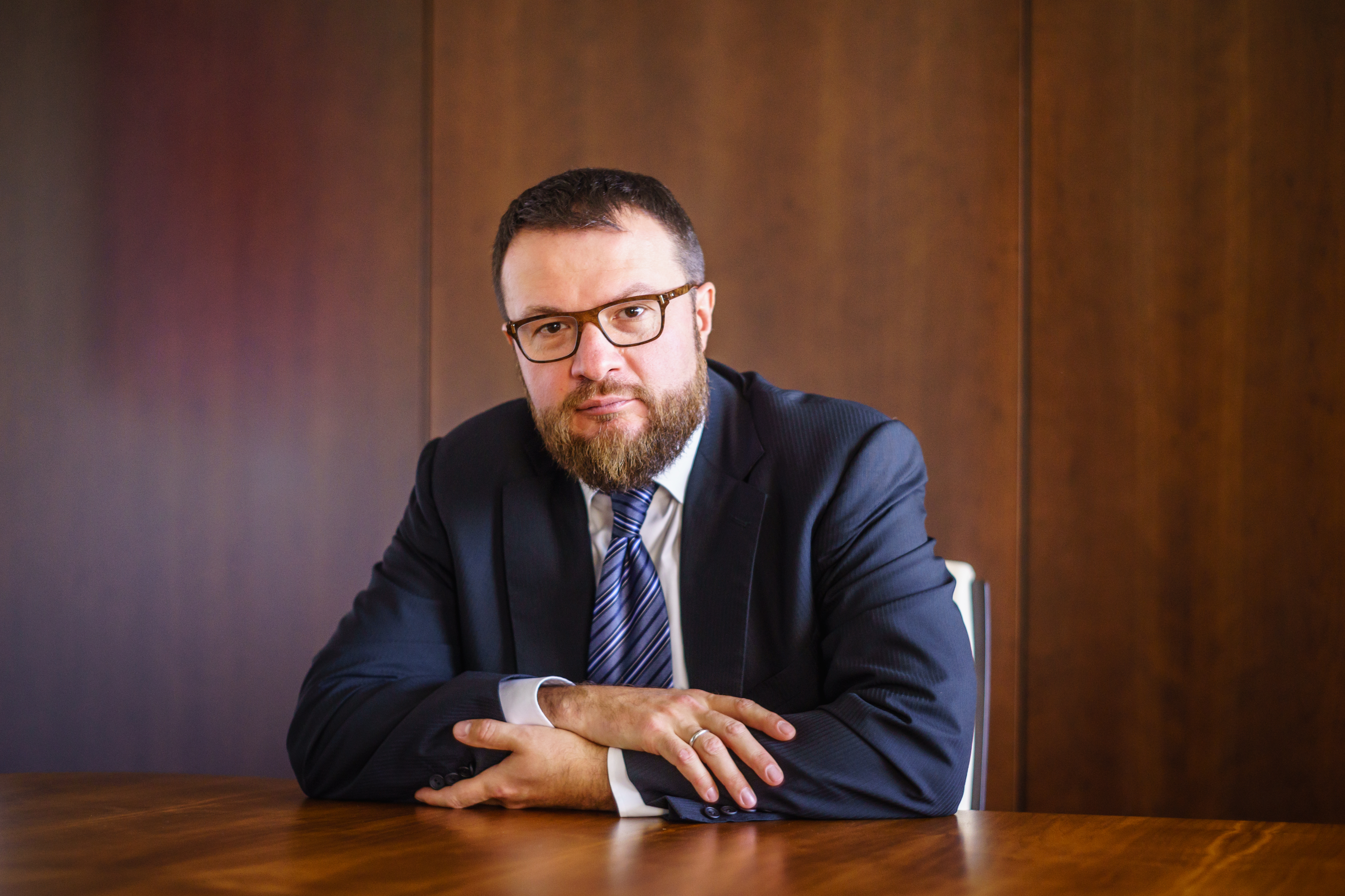 Илья Щербович в офисе фонда UCP